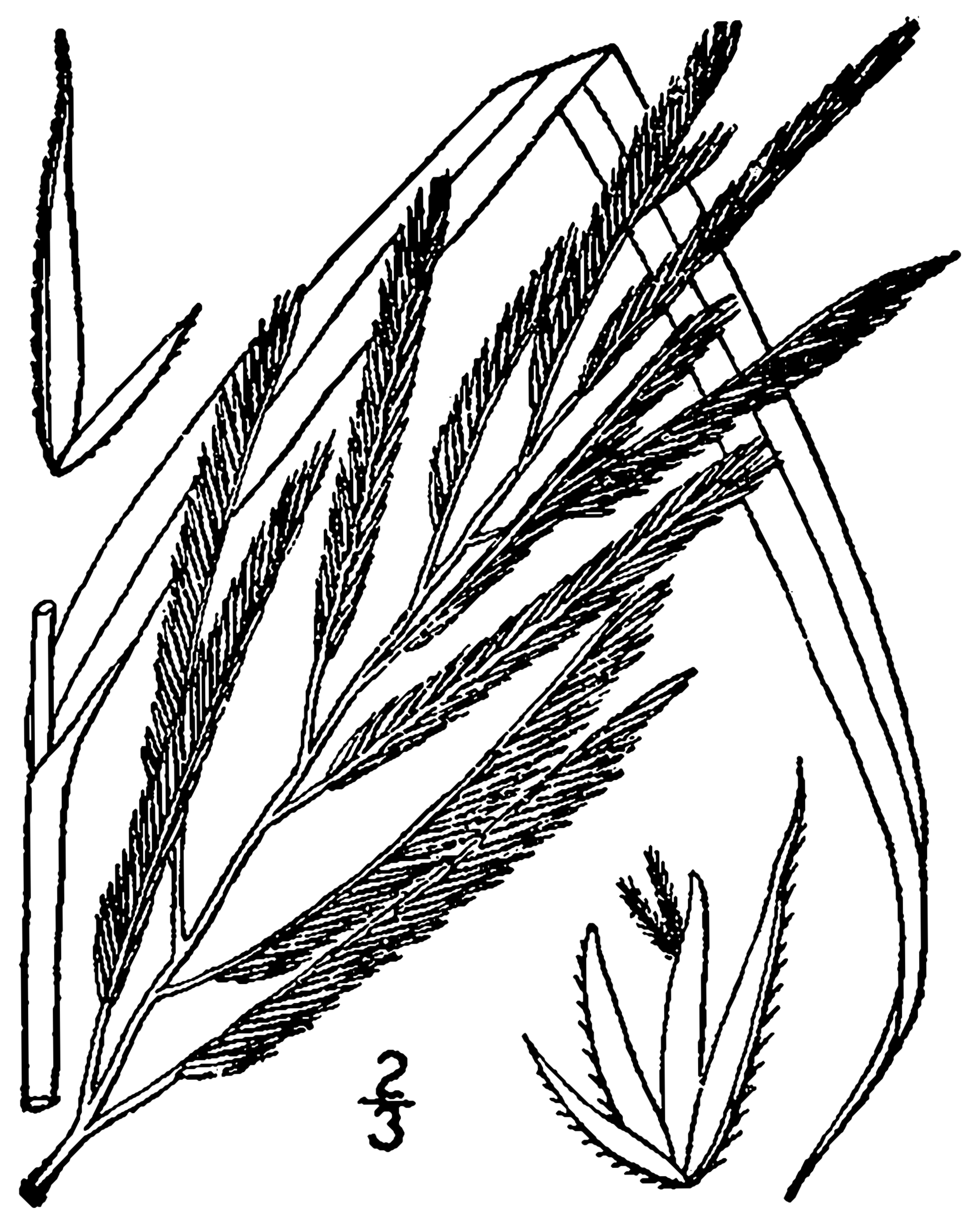 Spartina cynosuroides (L.) Roth - big cordgrass